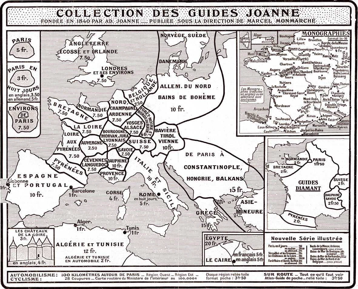 Map of geographic regions covered in the travel guide book series, "Guides Joanne"